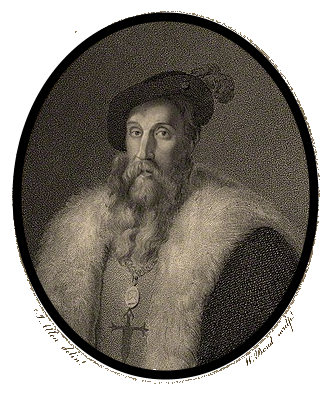 Humphrey Stafford, 1st Duke of Buckingham (after Wiliam Bond) Stipple engraving of Humphrey Stafford, 1st Duke of Buckingham by William Bond, published by Philip Yorke, after Joseph Allen